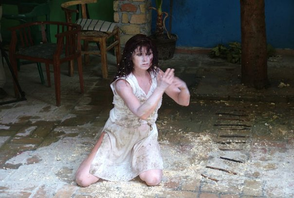 Activistic performance for trees, Novi Sad 2009